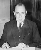 Sir John Anderson, the Chancellor of the Exchequer, seated at his desk at the Treasury, the day before he presented the budget.